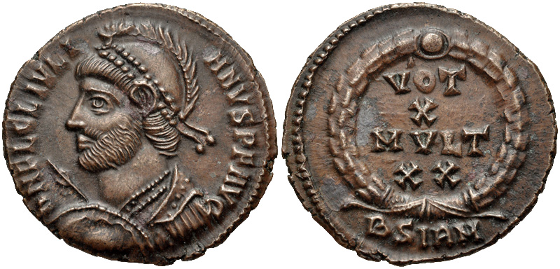 Julian II. AD 360-363. Æ (20mm, 3.04 g, 12h). Sirmium mint, 2nd officina. Struck summer AD 361. Pearl-diademed, helmeted, and cuirassed bust left, holding round shield and spear; VOT/X/MVLT/XX in four lines; all within wreath; BSIRM. RIC VIII 108; LRBC 1619. EF, brown surfaces.